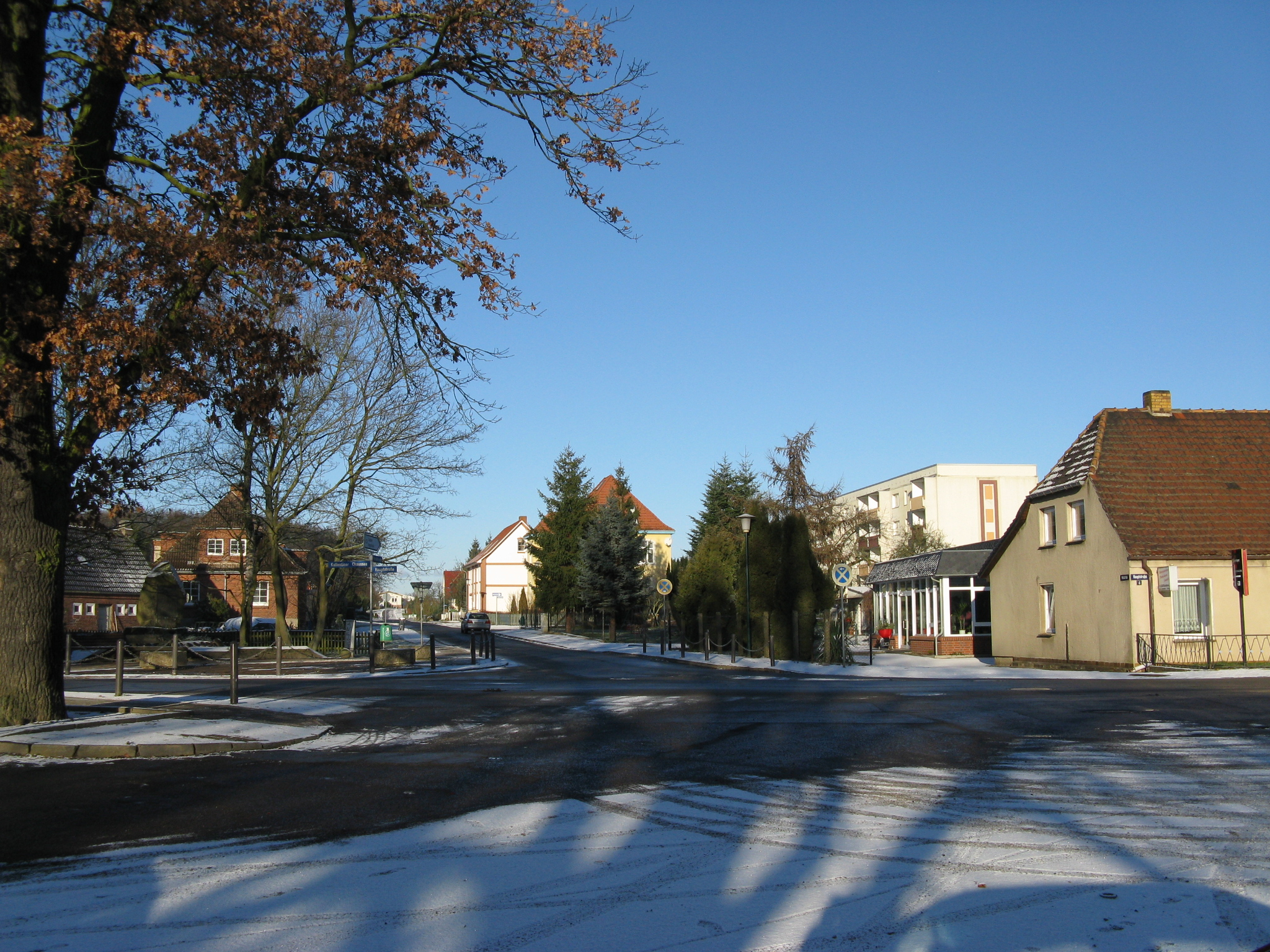 View from train station to the village in Bad Kleinen, district Nordwestmecklenburg, Mecklenburg-Vorpommern, Germany